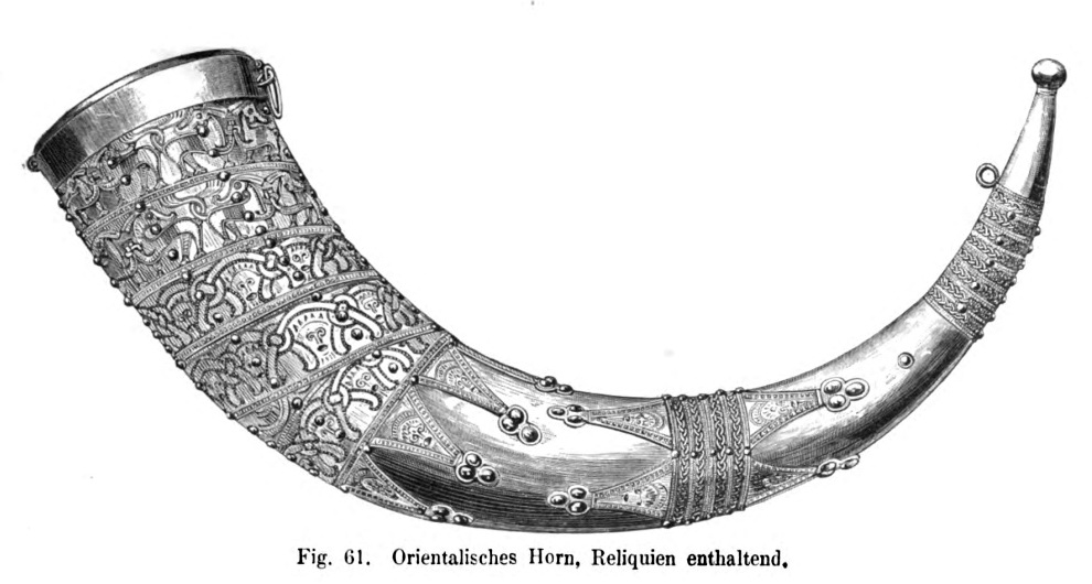 Woodcut illustration of a reliquary horn with tin furnishings (Scandinavia, 10th c.) in the Treasury of the Basilica of Our Lady in Maastricht, the Netherlands. One of 66 illustrations in Bock & Willemsen's 1872 publication on the church treasures of St. Servatius and Our Lady, both in Maastricht.